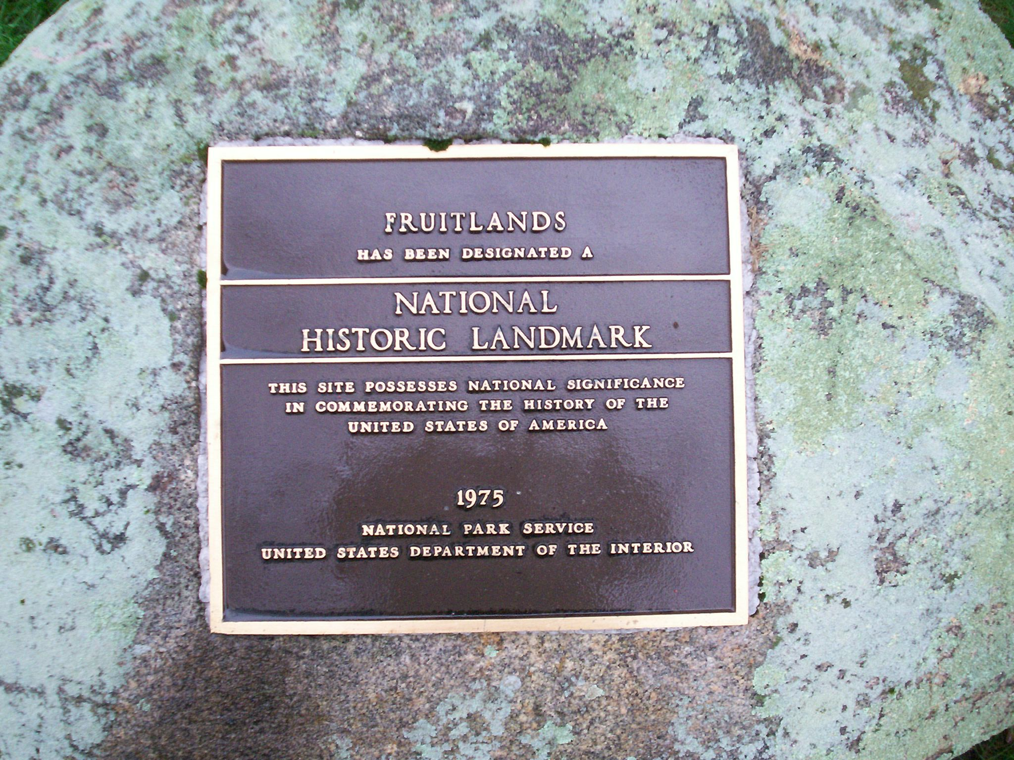 Historical marker for Fruitlands, a failed Utopian experiment in 1841 in the town of Harvard, Massachusetts. The plaque is located on a rock outside of the red farmhouse which still stands. It reads: Fruitlands has been designated a National Historic Landmark This site possesses national significant in commemorating the history of the United States of America. 1975 National Park Service United States Department of the Interior